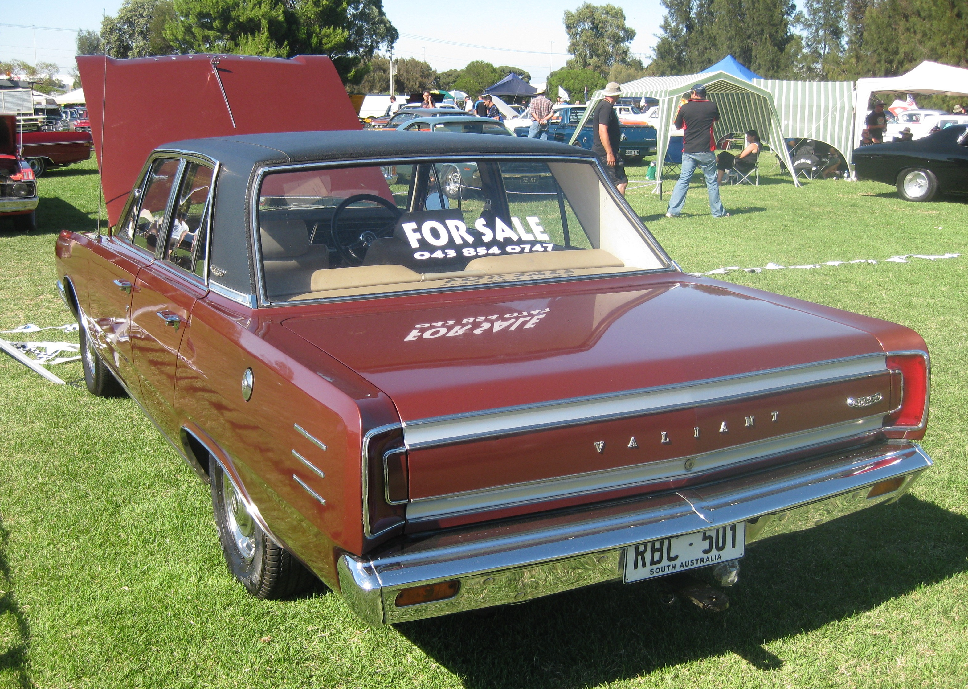 Chrysler VE Valiant V.I.P. Sedan (1968-1969)